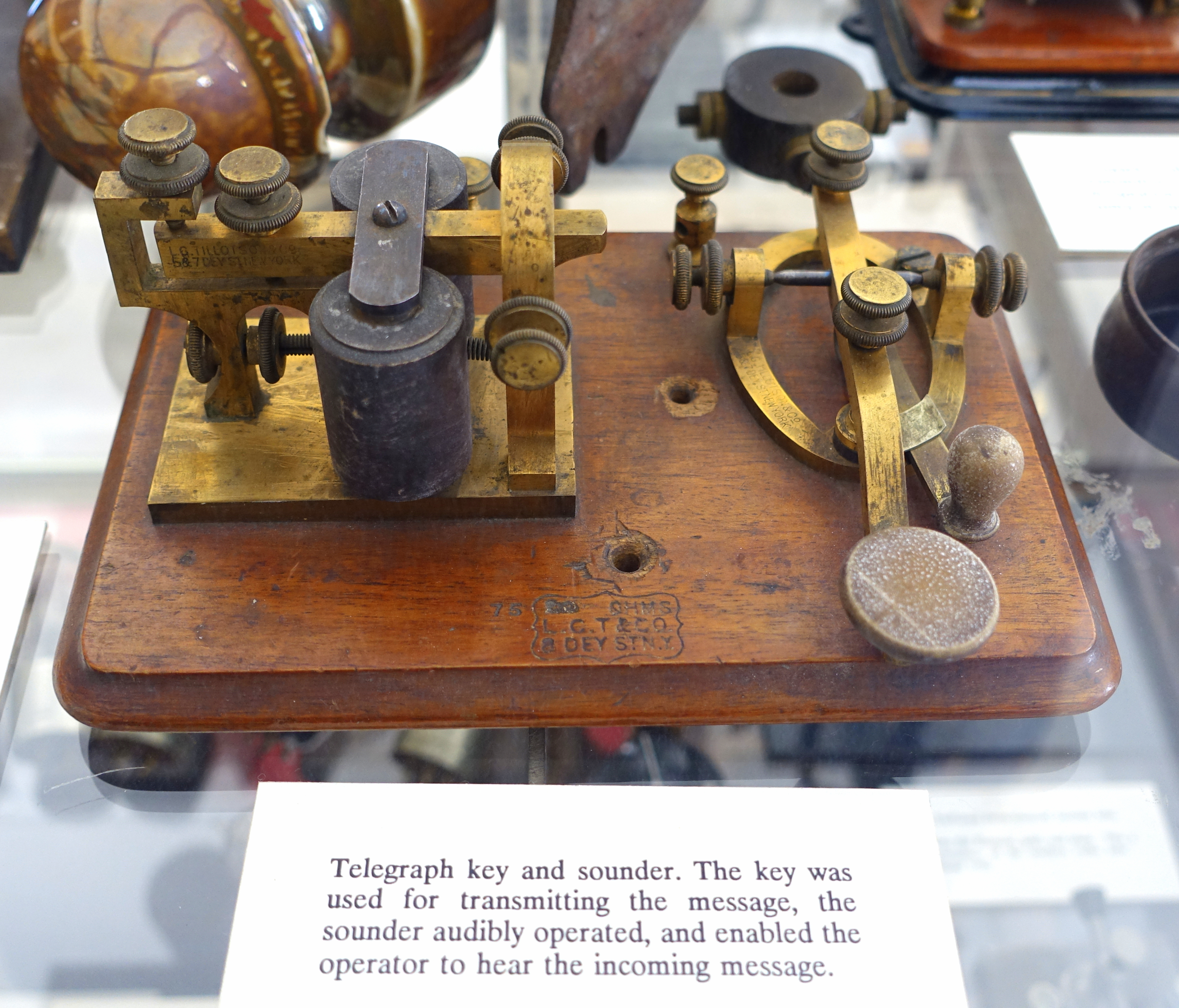 Exhibit in the Bennington Museum - Bennington, Vermont, USA. This work is in the public domain because the artist died more than 70 years ago.